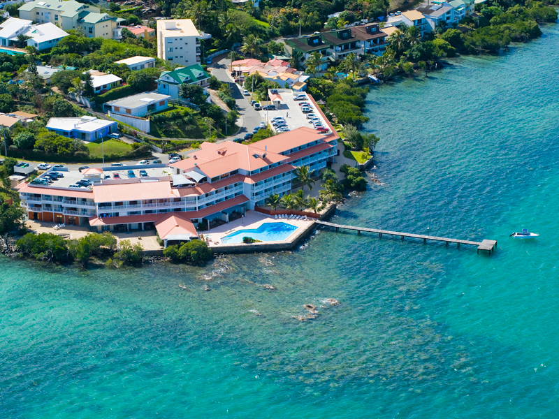 Le stanley